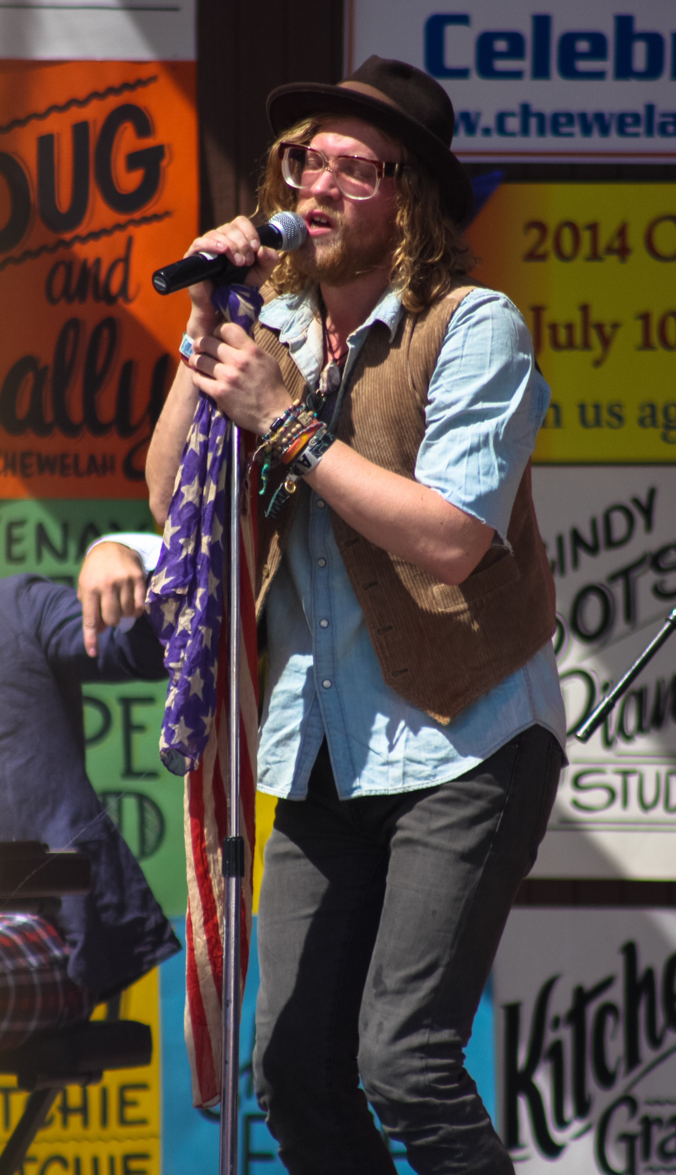 This is a picture of Allen Stone performing at the Chataqua festival in Chewelah, Washington.